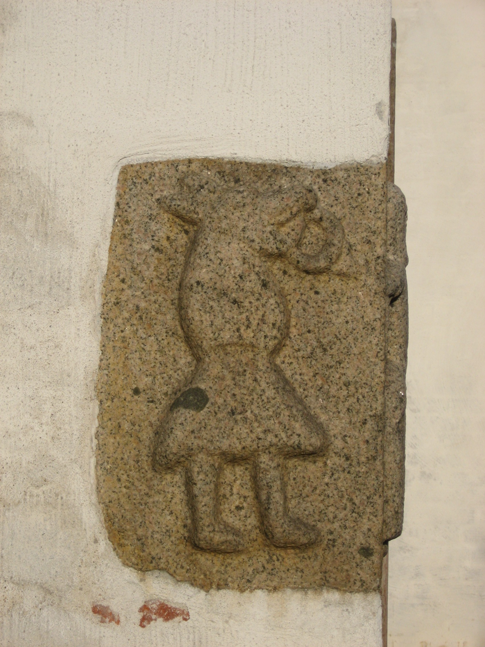 Hasle Kirke in Hasle, Århus, Denmark. A romanesque relief stone on the south-west corner of the tower. Viewed from west.